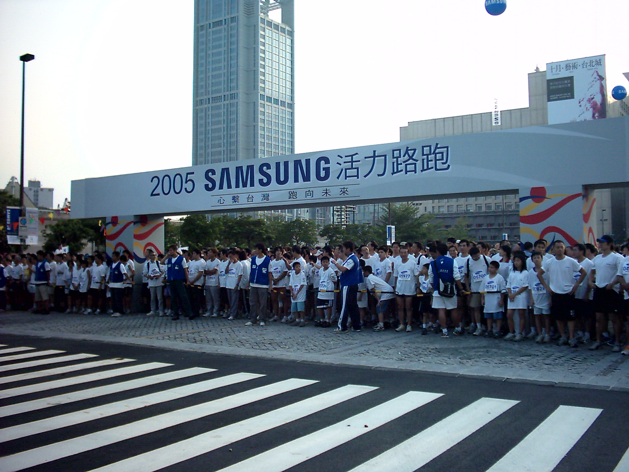 Crowded runners at Start Area in 2005 Samsung Running Festival Taipei. (Wide)